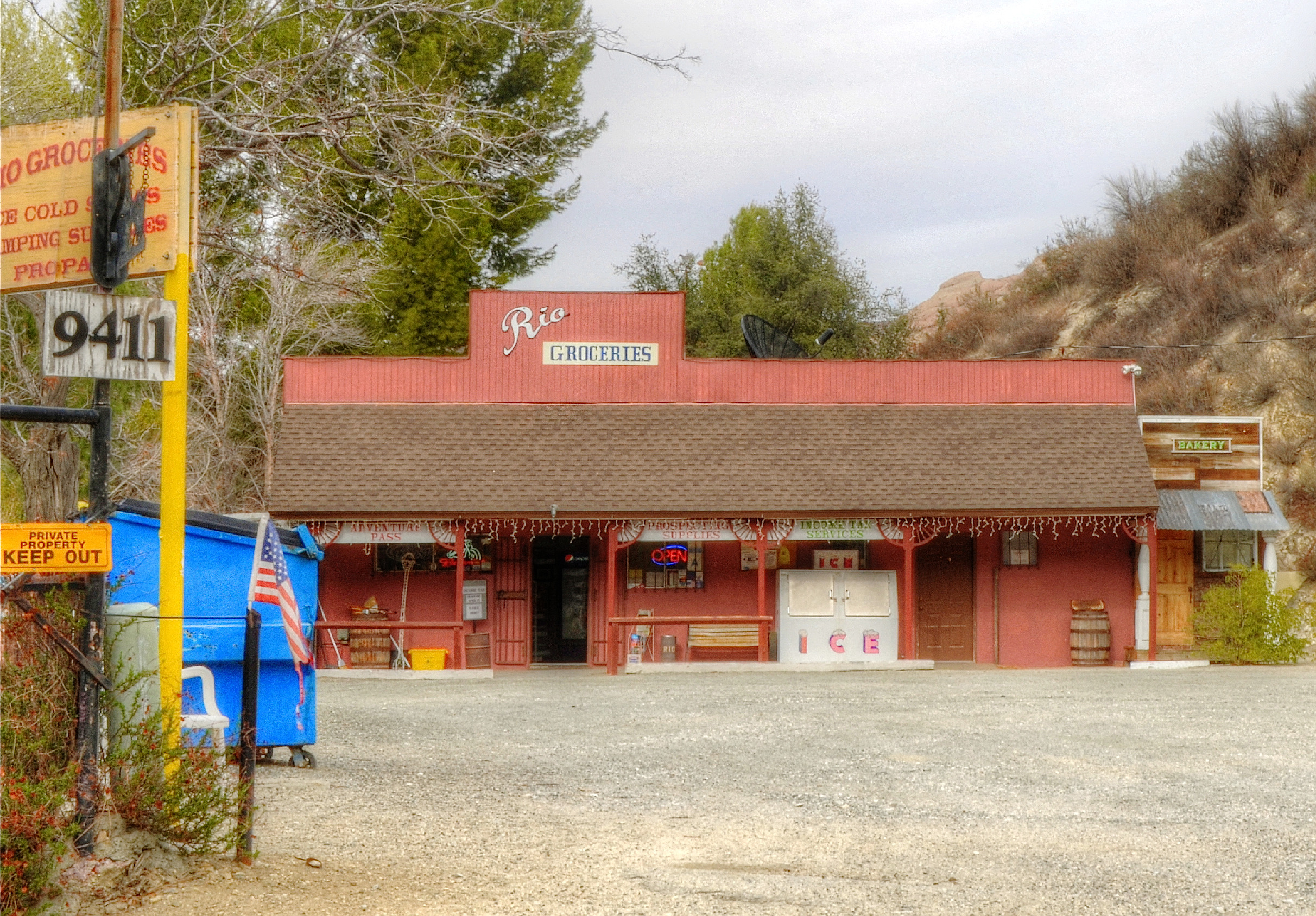 Rio Cafe & Groceries, the grocery store featured in The Last Starfighter (1984)